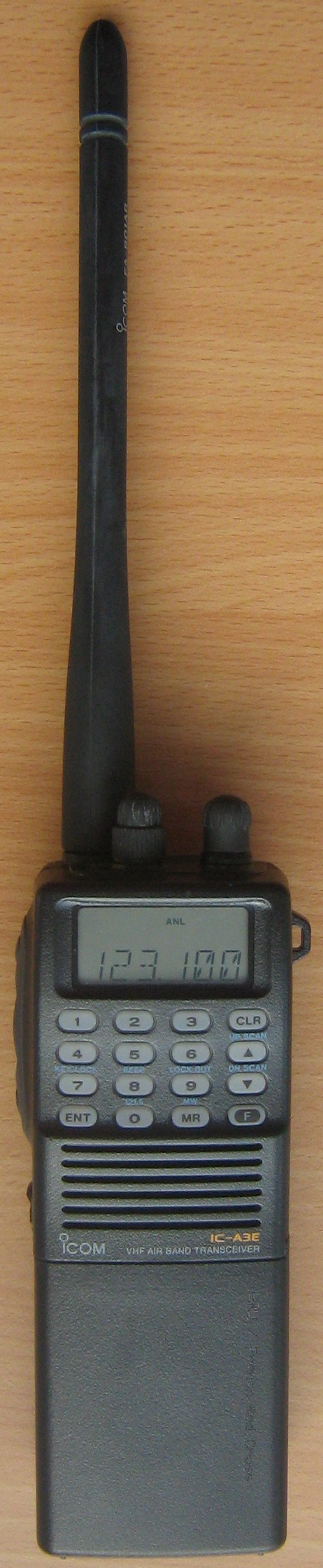 Talkie-walkie 118 to 137 MHz